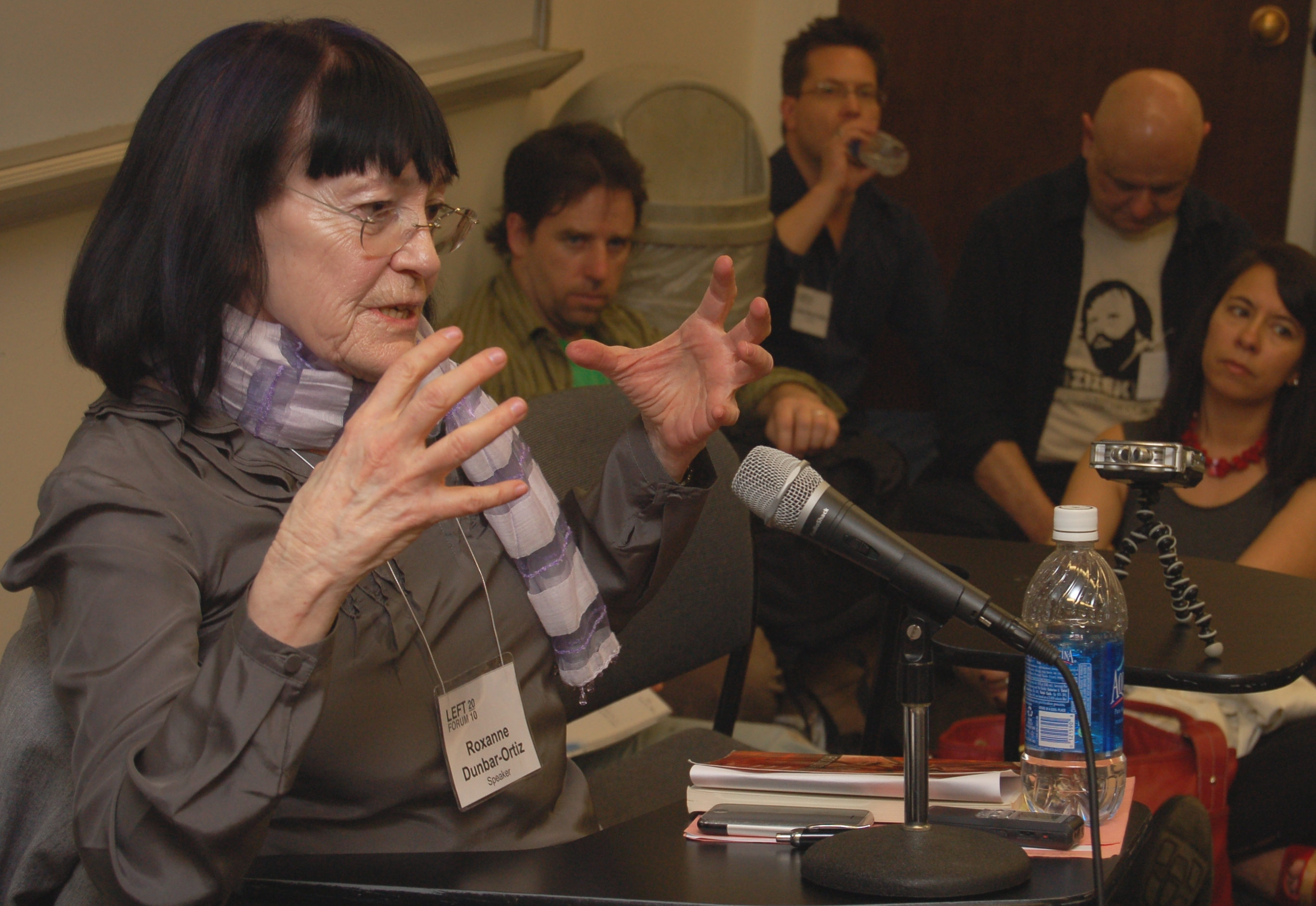 Roxanne Dunbar-Ortiz speaking at the Left Forum.